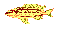 Draft of Serranus baldwini fish